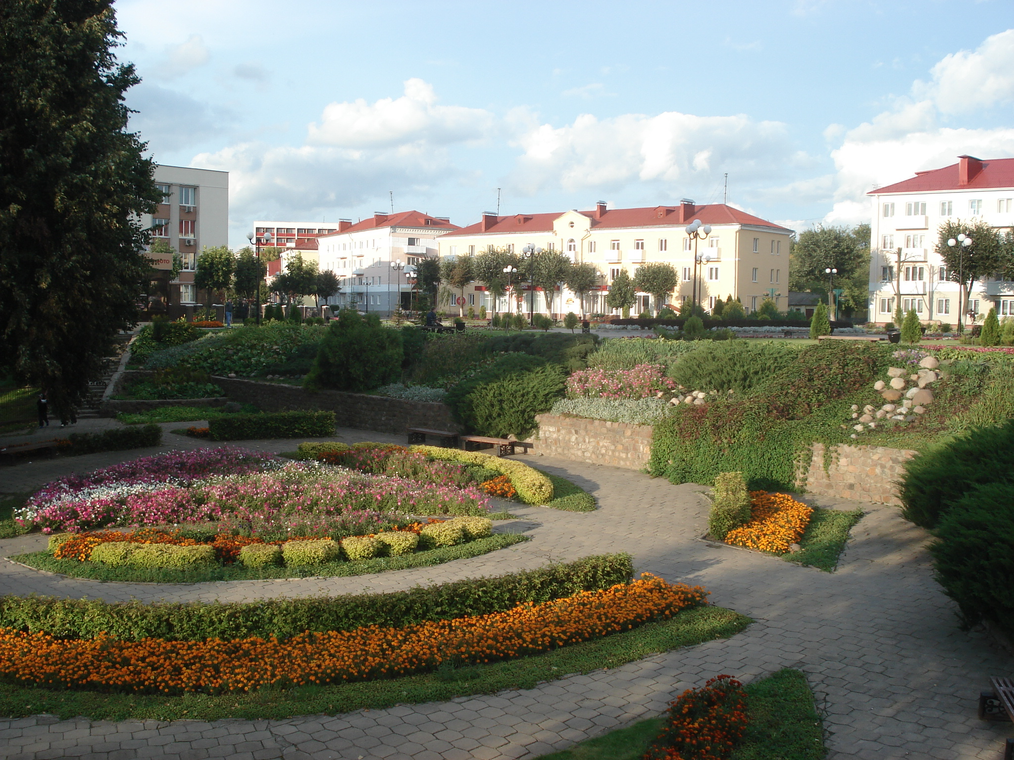 Flowers in Vorša